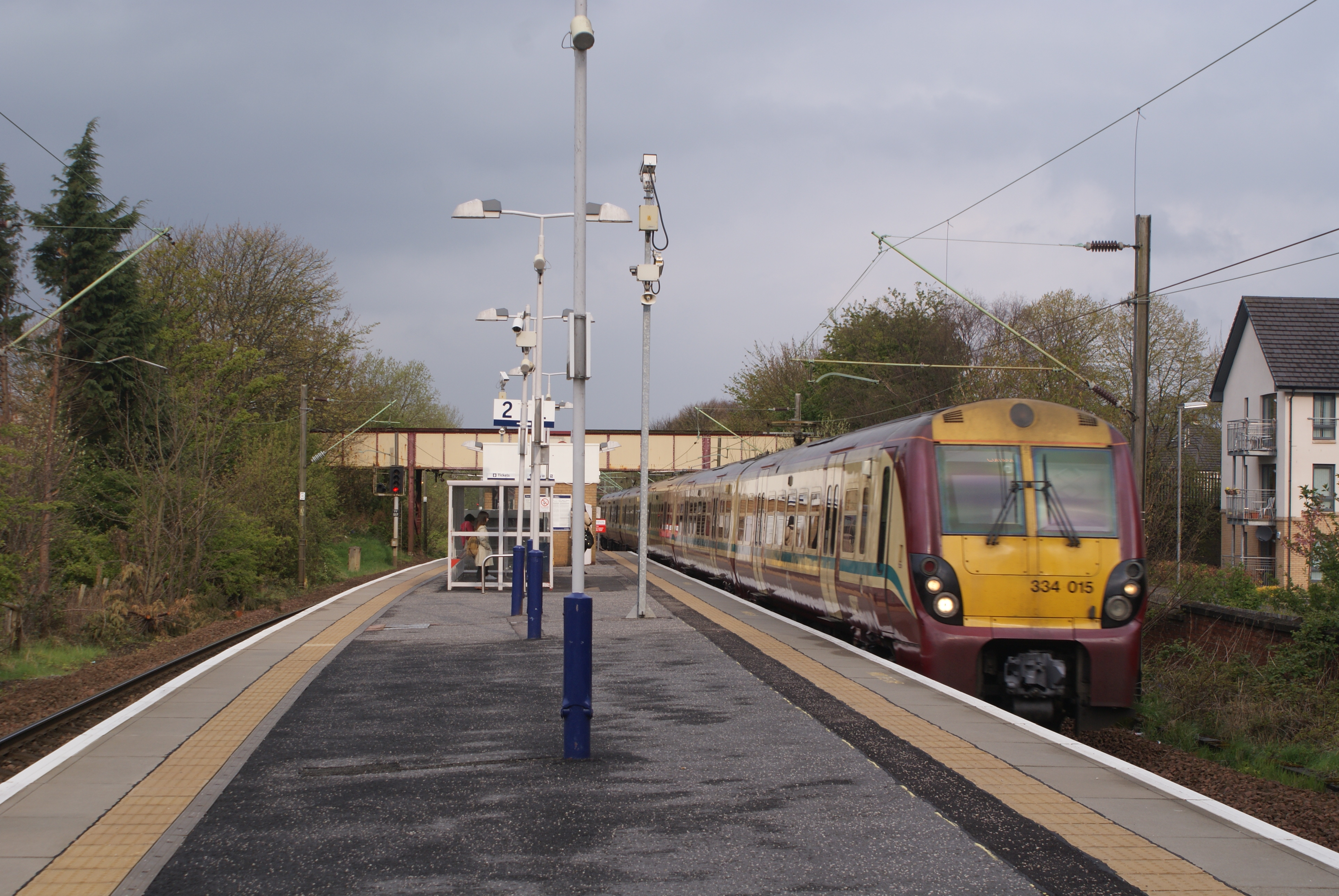 Class 334 electric train at Garscadden railway station, looking westwards, Glasgow